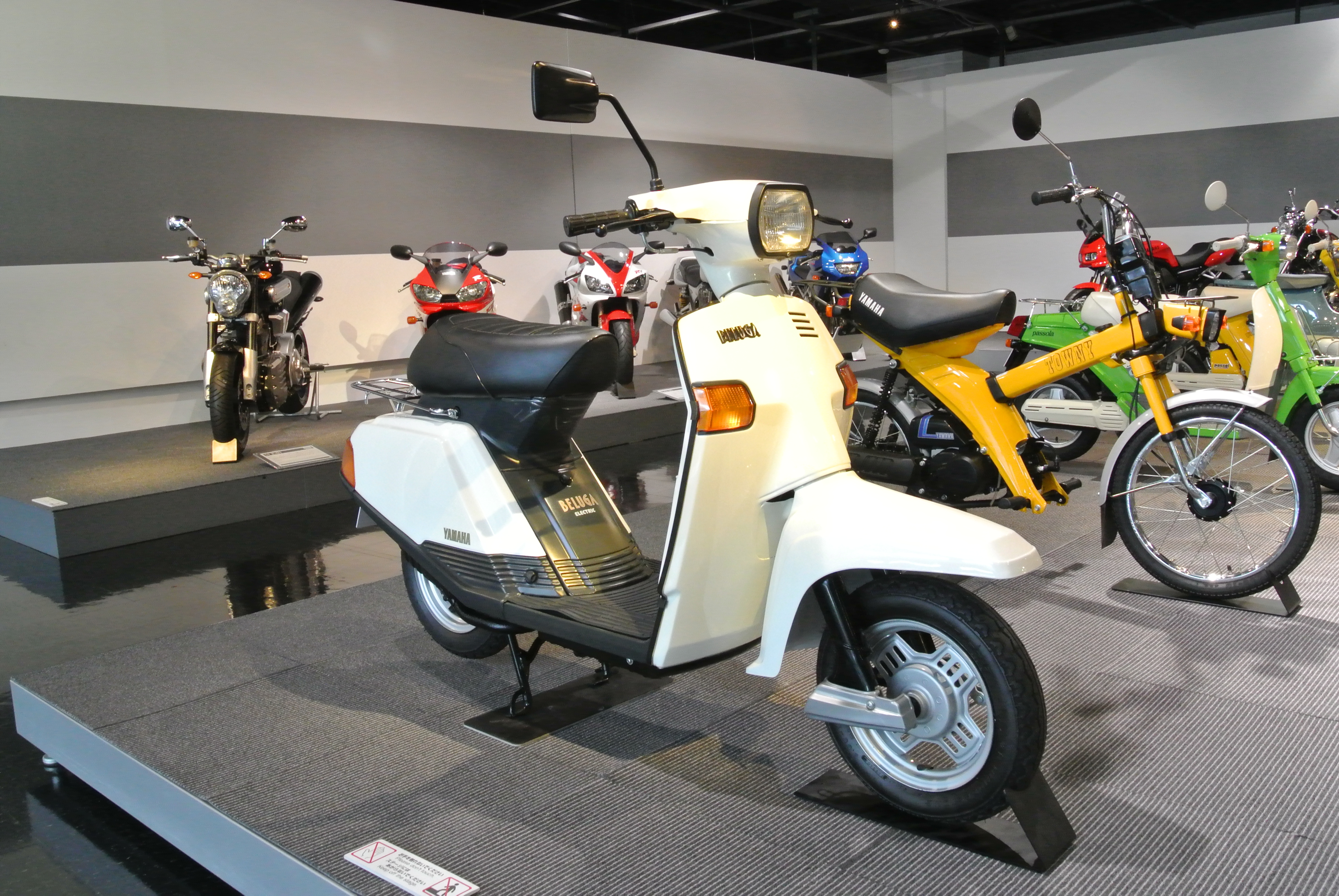 1981 Yamaha Scooter Beluga (CV50E) in the Yamaha Communication Plaza.